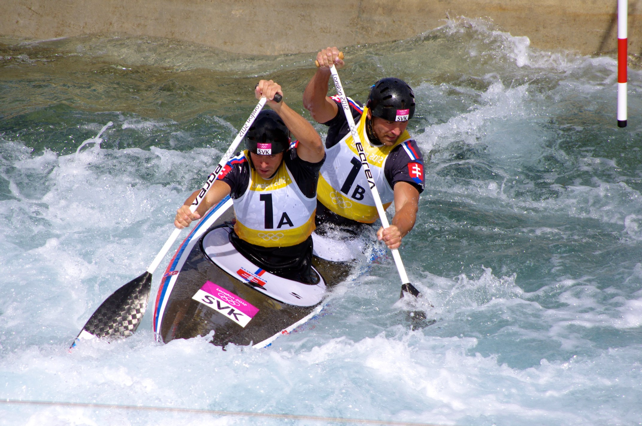 Canoeing at the 2012 Summer Olympics – Men's slalom C-2 Pavol Hochschorner (1A) and Peter Hochschorner (1B) (SVK)